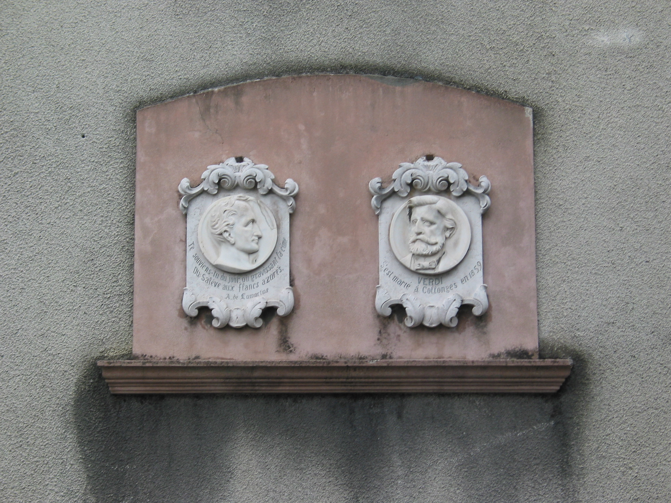 Memorial plaque at the church of Collonges-sous-Salève for the wedding of Giuseppe Verdi